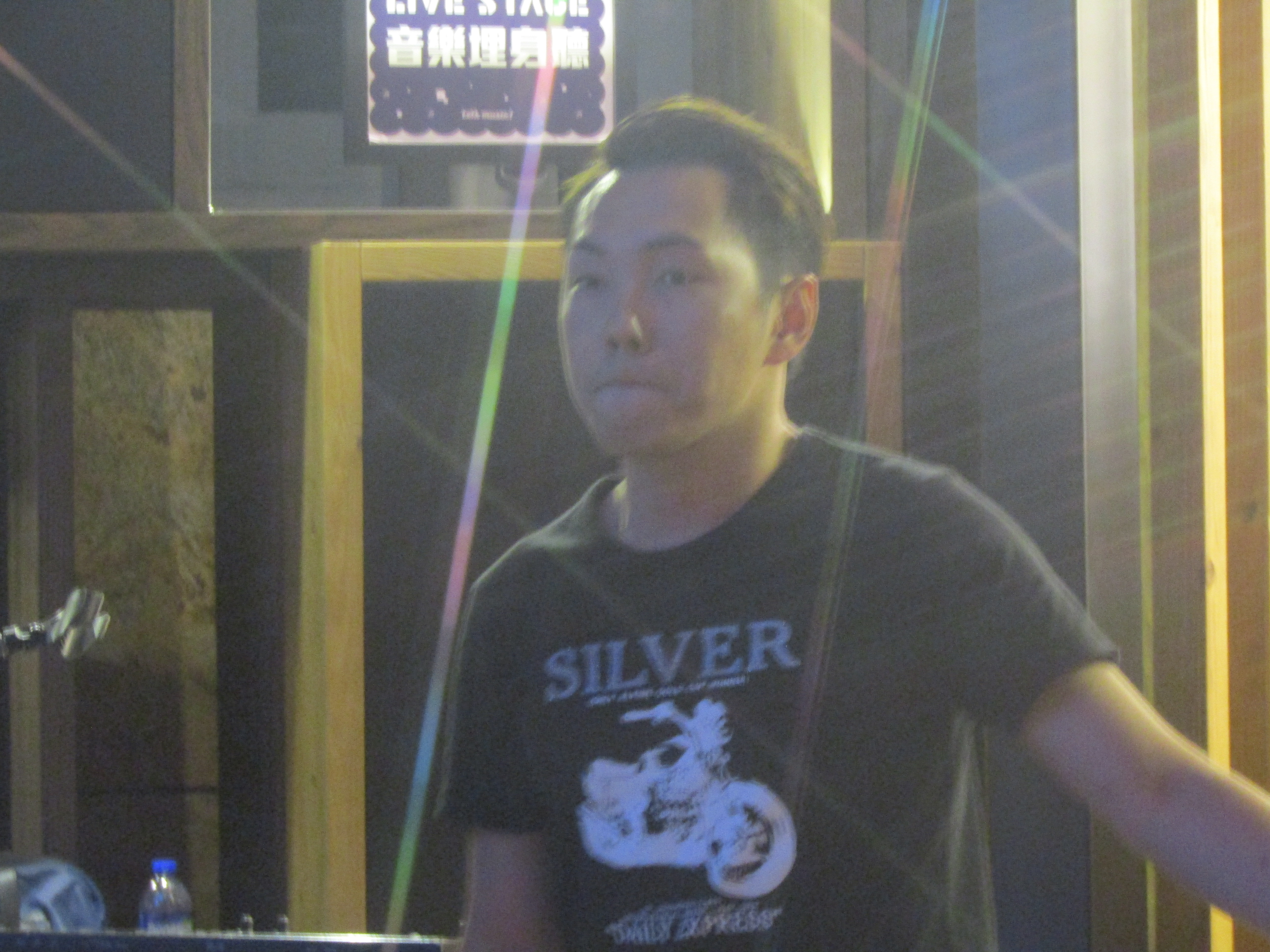 Ivan So is singing at Langham Place, Mong Kok